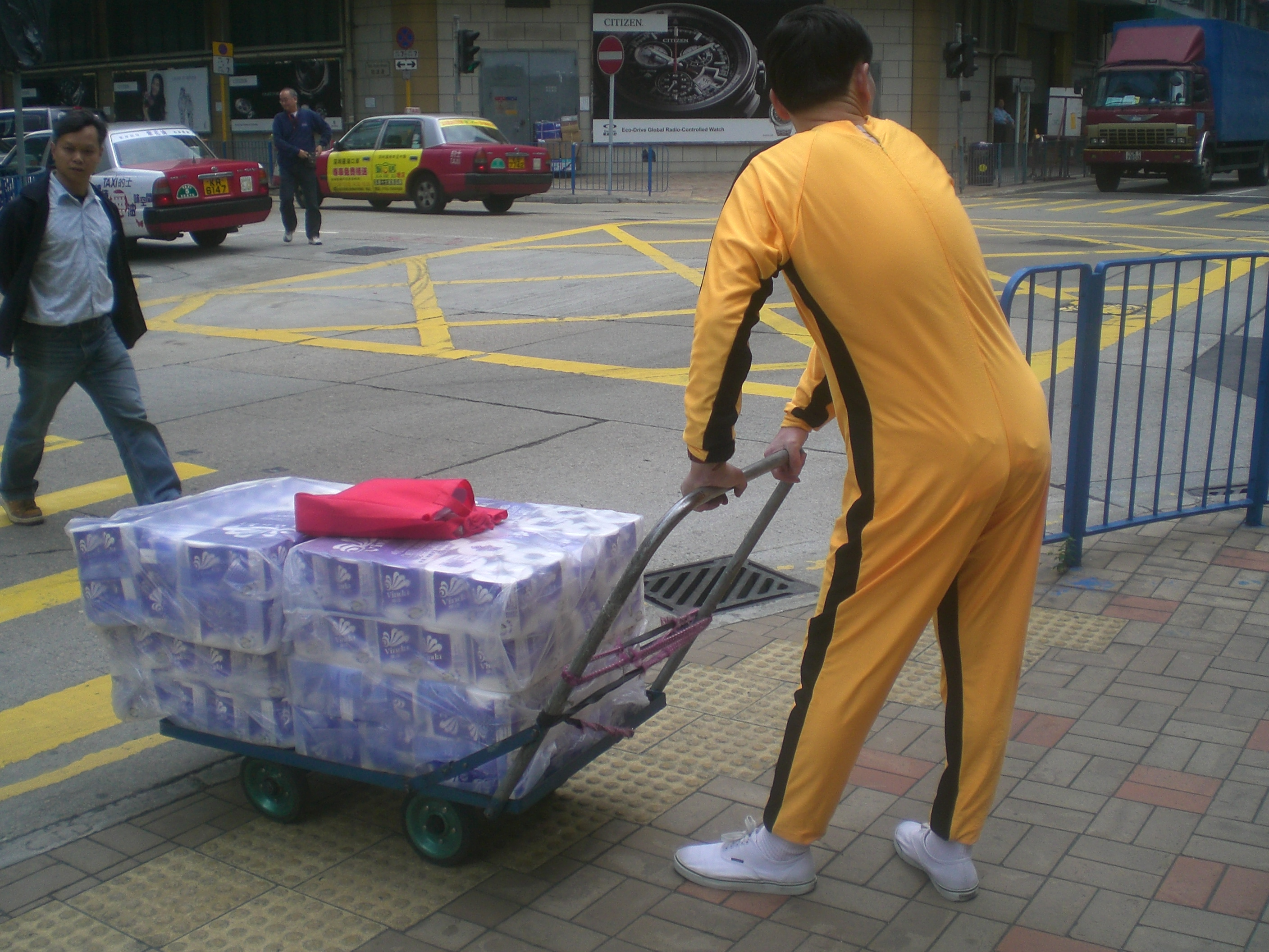 yellow orange clothing.